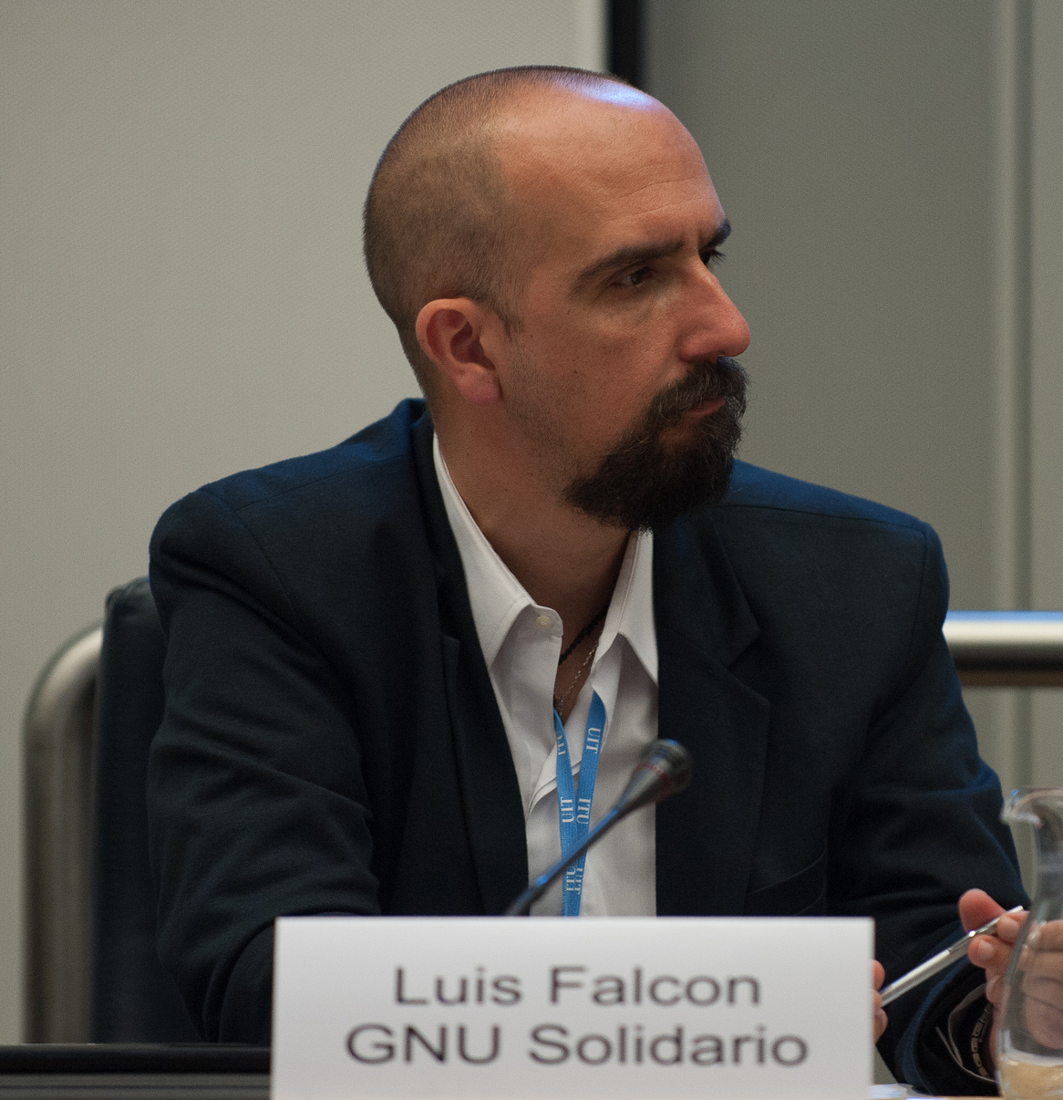 Luis Falcon speaking at ITU / WHO session, ICT for Improving Information and Accountability for Women’s and Children’s Health, WSIS Forum 2013, Geneva